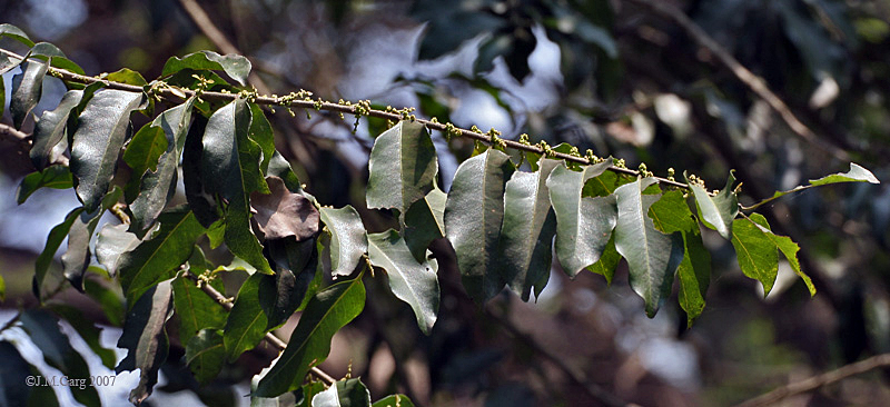 Drypetes roxburghii syn. Putranjiva roxburghii in Kolkata, West Bengal, India.